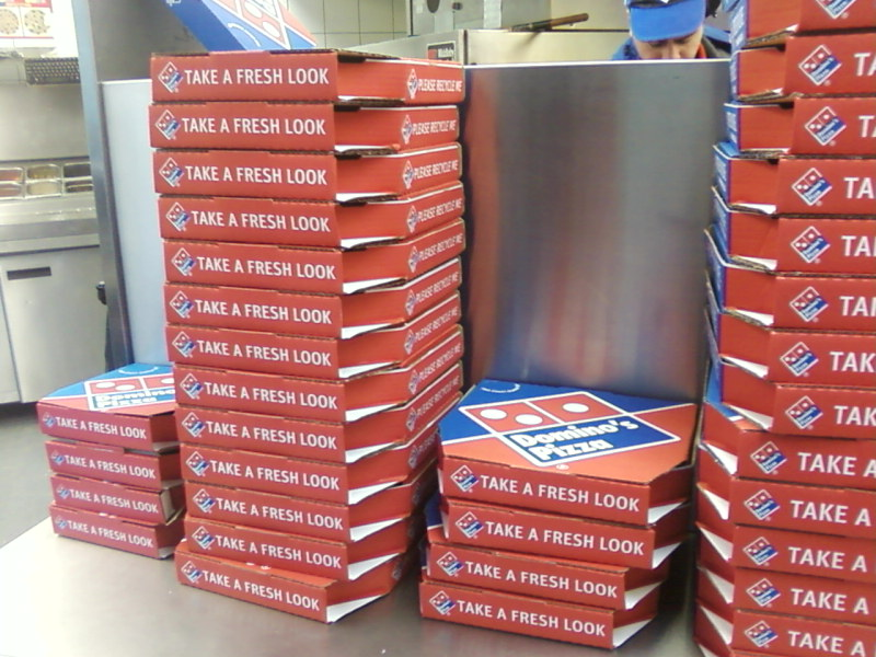 Pizza boxes.